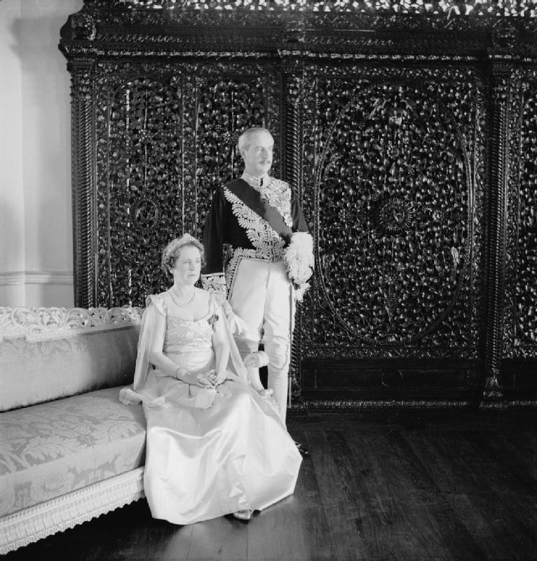 Cecil Beaton Photographs- Political and Military Personalities Political Personalities: The Governor of Bombay, Sir John Colville, with Lady Colville, in formal dress.